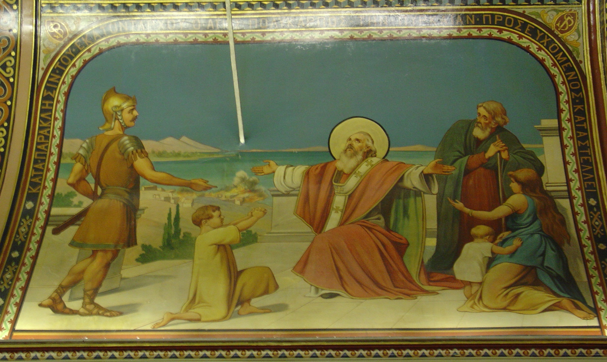 Church Icon at St Polycarp's Roman Catholic Church depicting Polycarp miraculously extinguishing fire of the city of Smyrna (Izmir, Turkey).